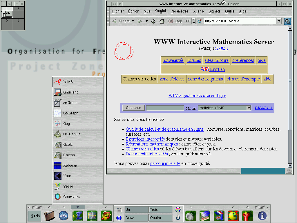 Screenshot of Freeduc CD's desktop (version 1.3) booted with French language as an option. We can see the embedded Wims service and a "drawer of applications" open.